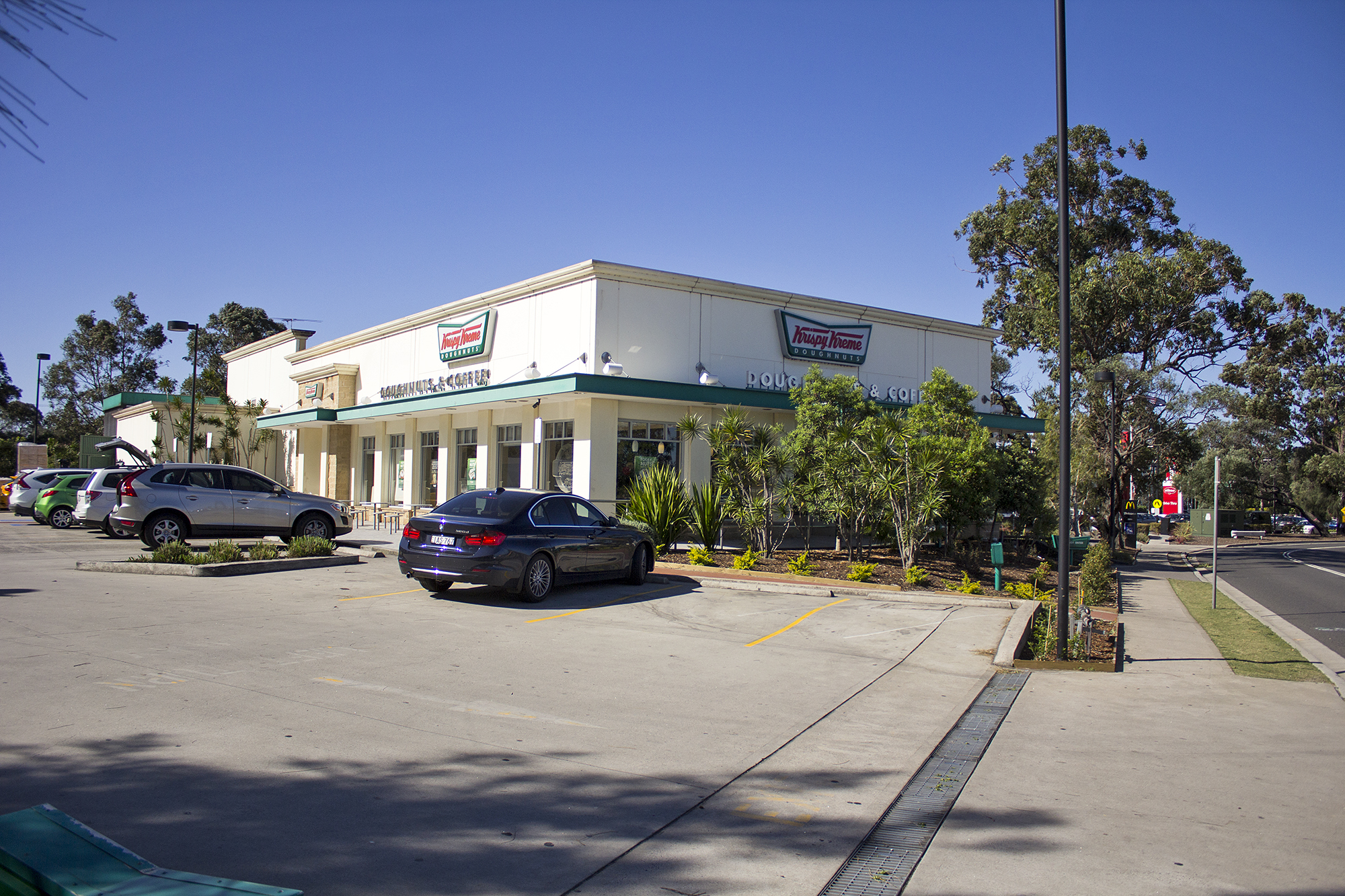 Krispy Kreme Doughnuts and Coffee located on Ross Smith Ave at Sydney Airport.